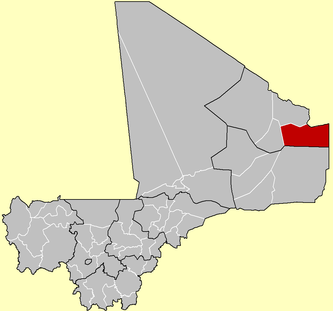 Map of Essouk Cercle, Mali